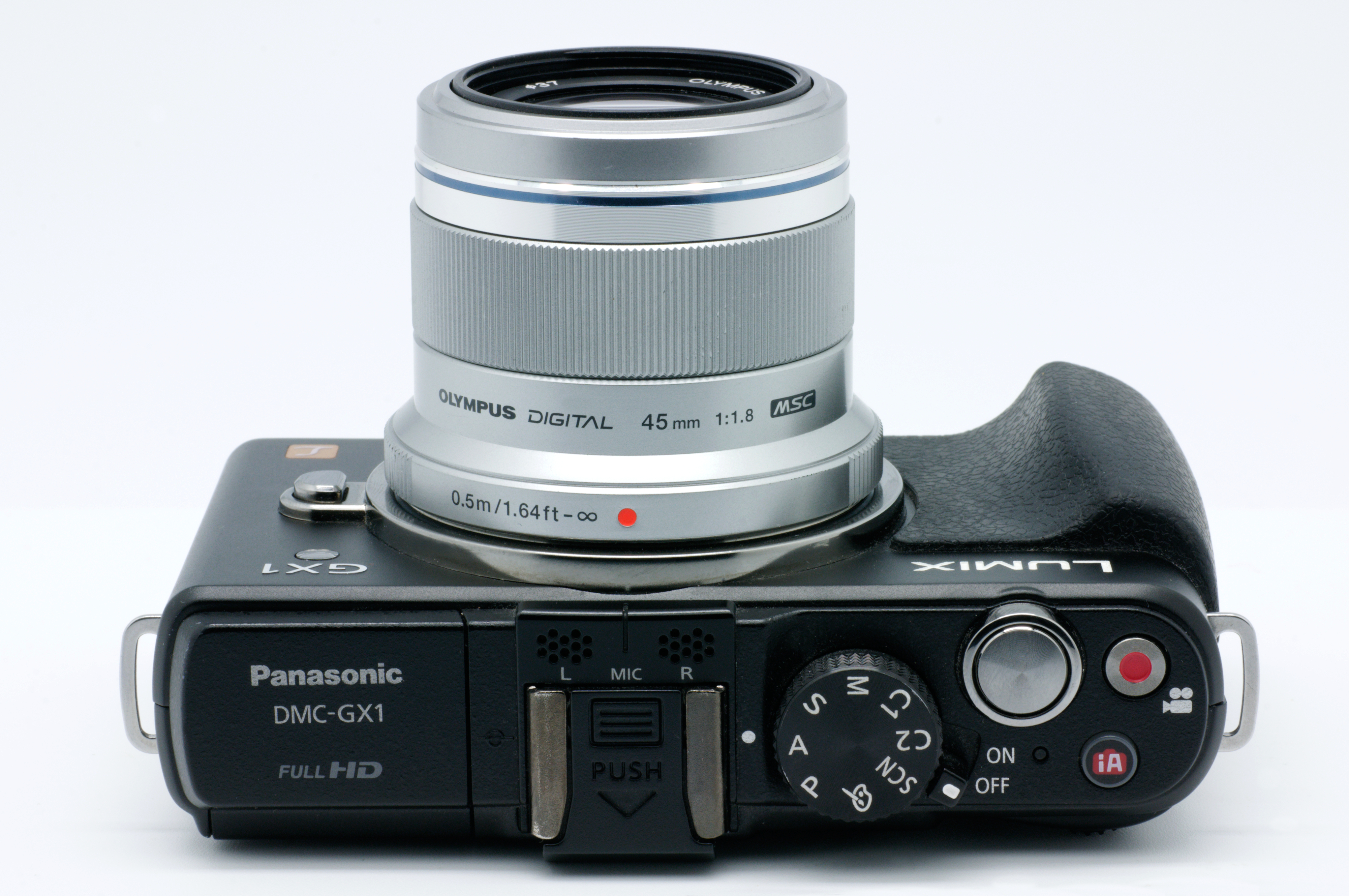 An Olympus M.Zuiko Digital ED 45mm F1.8 lens mounted on a Panasonic Lumix DMC-GX1.